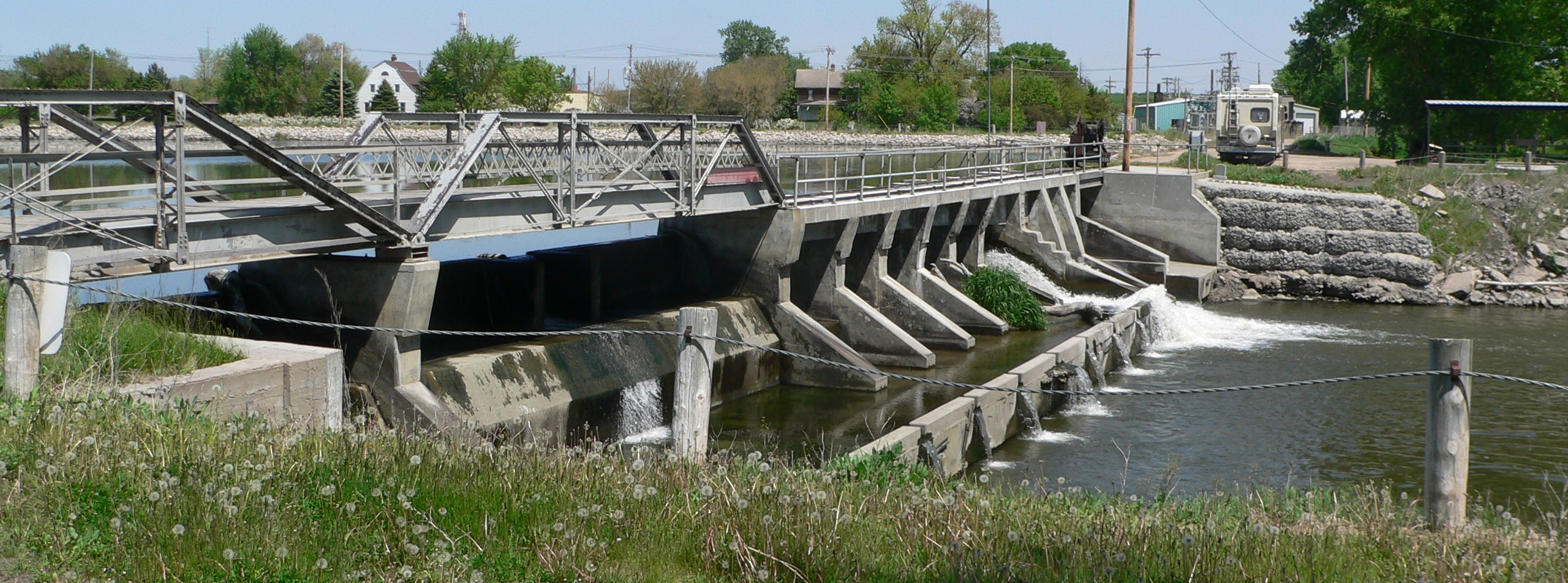 Diversion dam on the Cedar River in Spalding, Nebraska; seen from the west. The dam directs a portion of the river's flow into a canal that leads to a hydroelectric generator; a tailrace canal returns the water to the Cedar. The dam was constructed in 1923; it is part of the Spalding Power Plant and Dam complex, which is listed in the National Register of Historic Places.